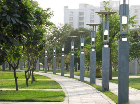 Lohia Park in Gomti Nagar features sprawling green lawns, lakes and jogging tracks. Lucknow, Uttar Pradesh, India